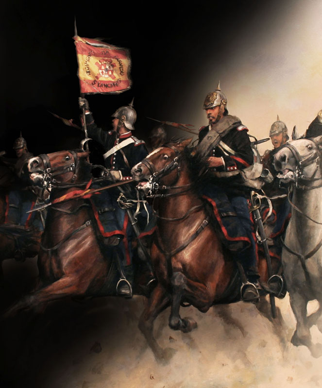 Farnesio , africa 1961 por ferrer dalmau